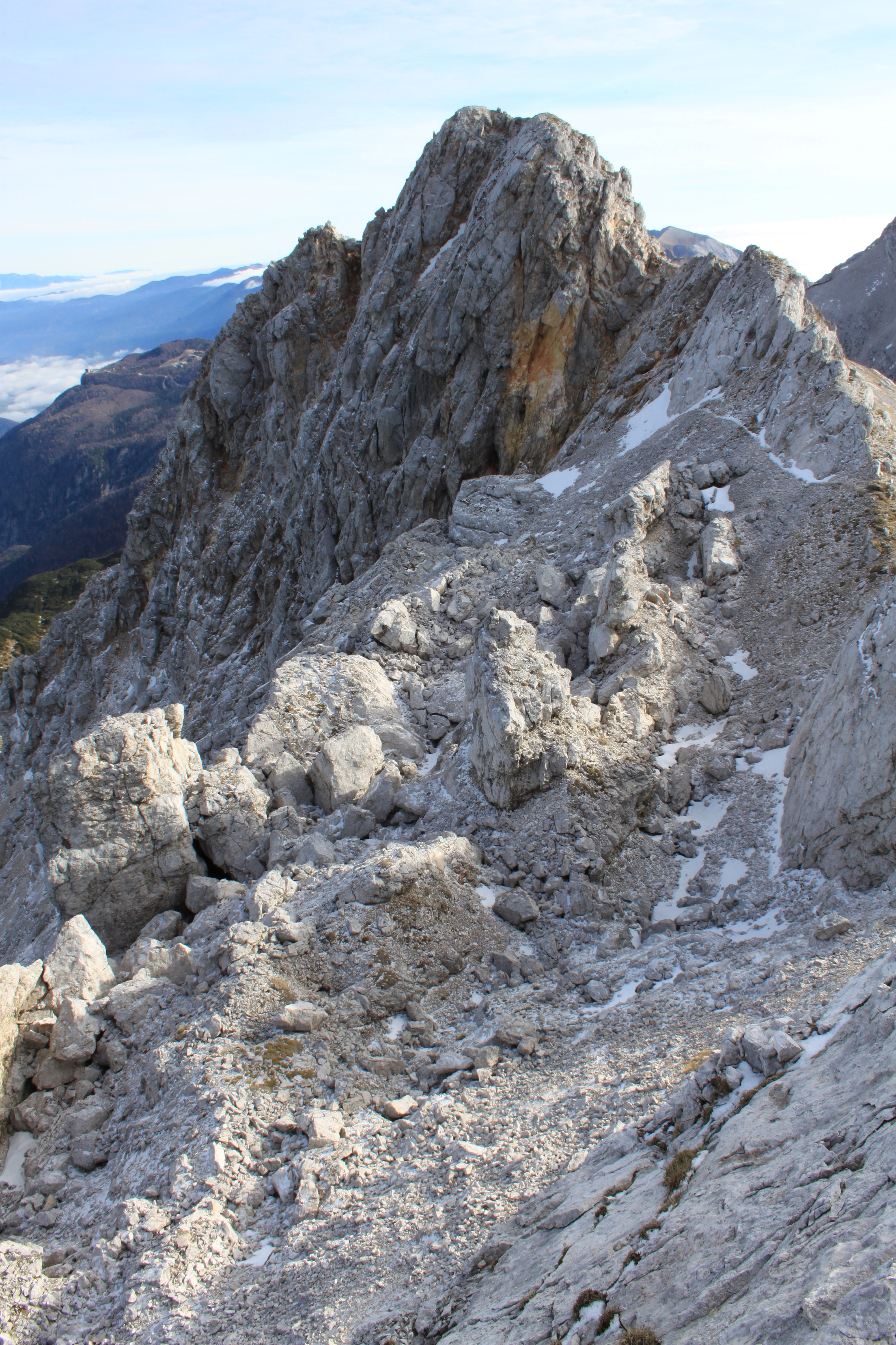 Summit of Podrta gora (6,761 ft) from western Mali vrh, Julian Alps, Slovenia.